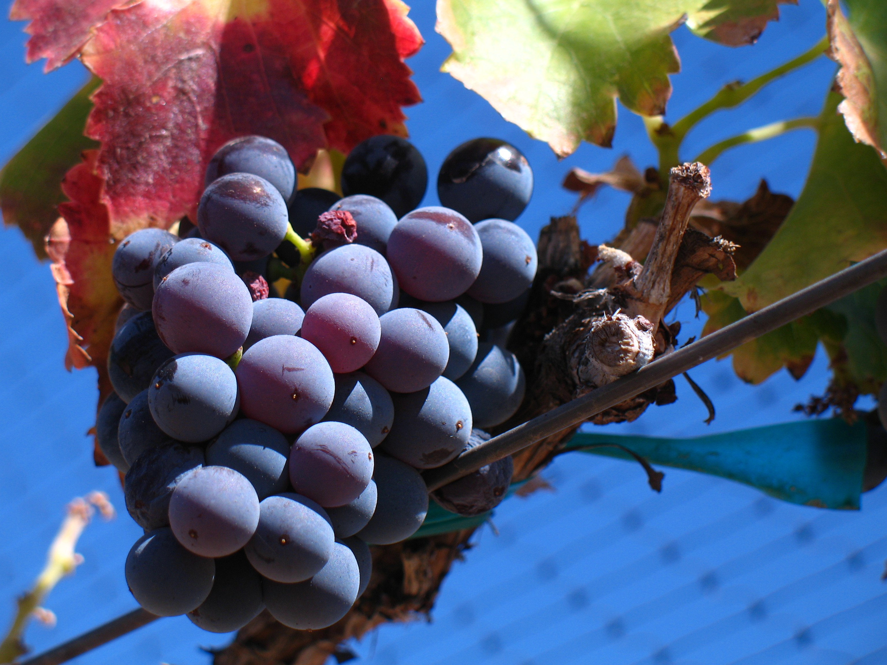 Picture of Grenache noir grapes from a vineyard in Santa Barbara, California.